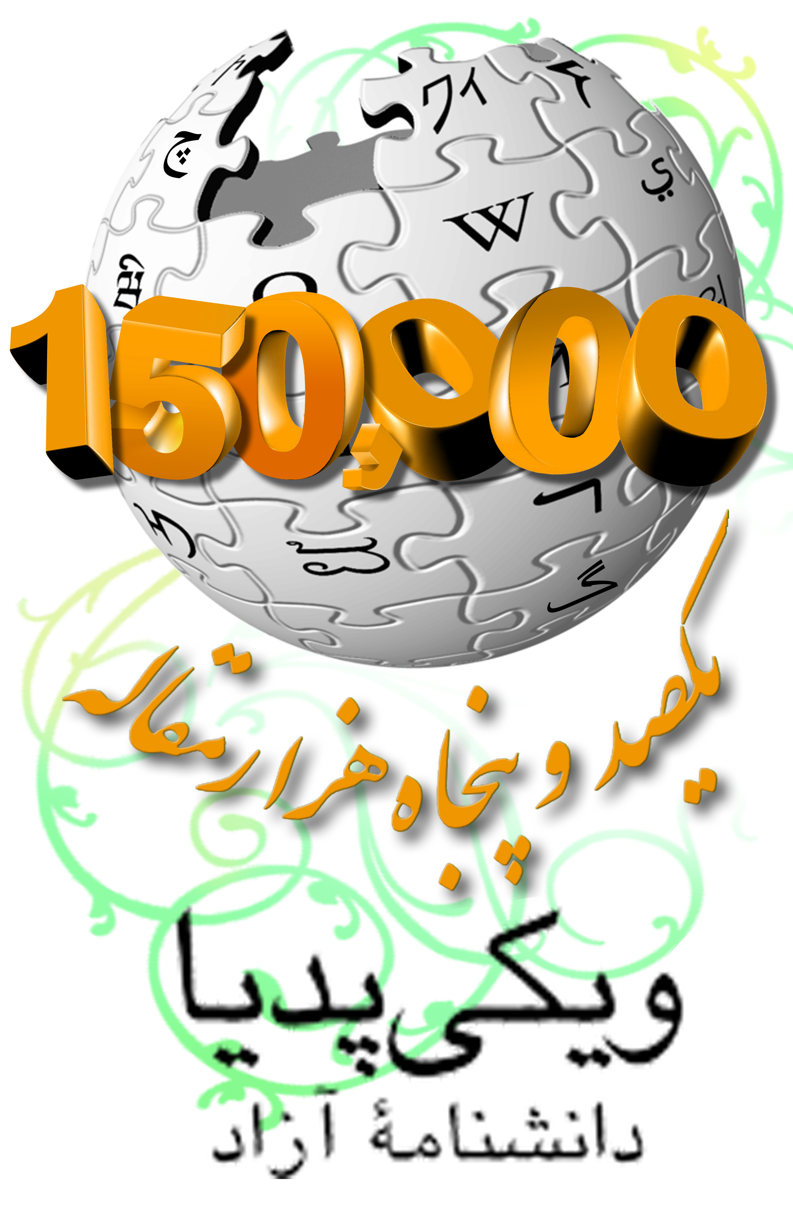 Logo for 150000th Wiki Farsi page